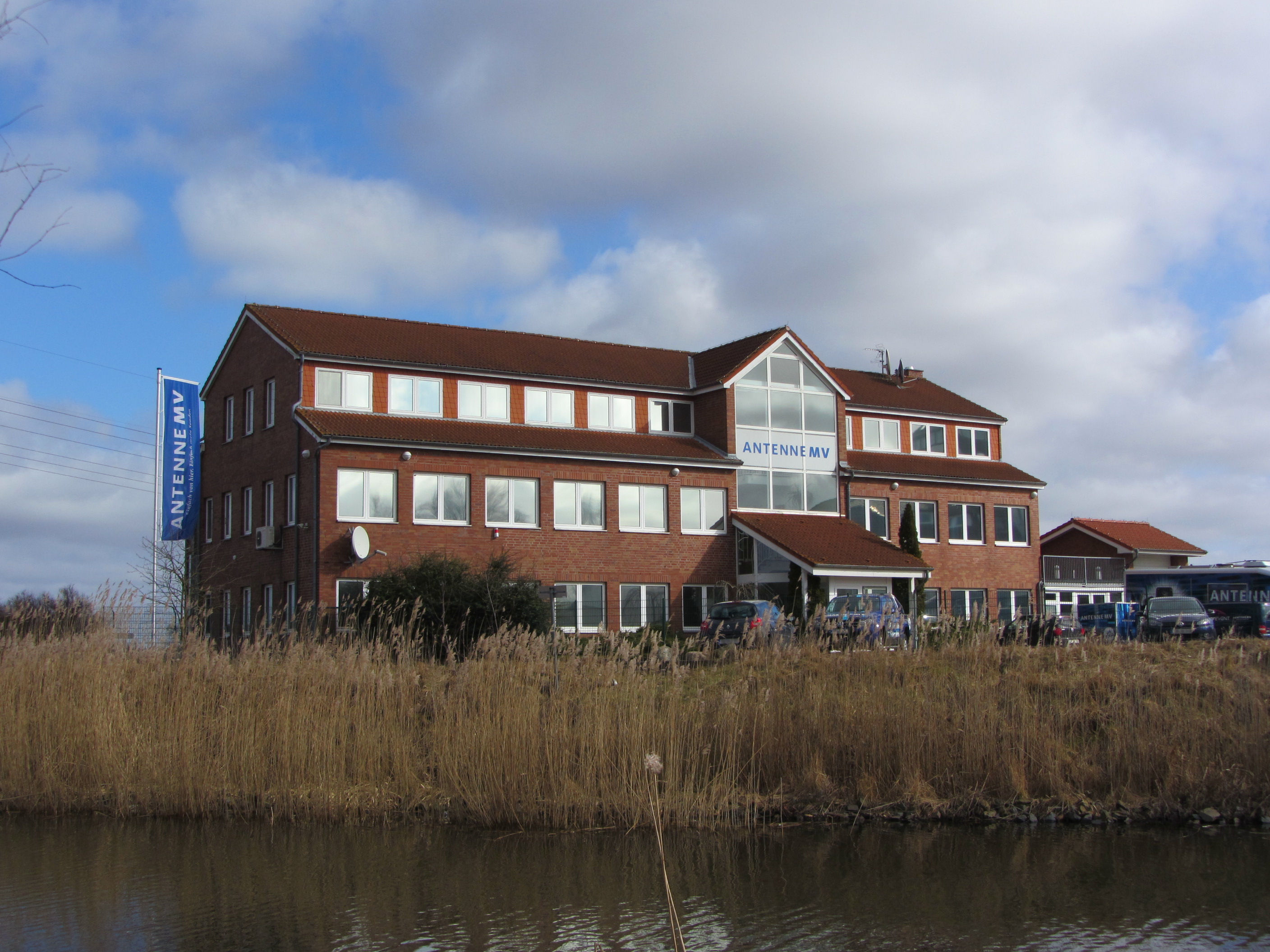 Broadcasting house of the radio station Antenne MV at Stör river in Plate, district Ludwigslust-Parchim, Mecklenburg-Vorpommern, Germany